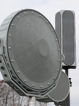 (From left to right) HyperSpike HS-14, HS-16, and MA-2.